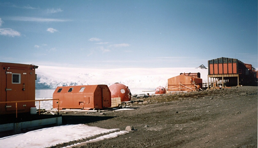 Argentinian Antarctic Base 'Jubany', King George I., South Shetland Is.